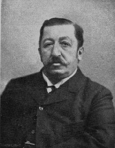 Portrait of the zoologist Gusztáv Emich